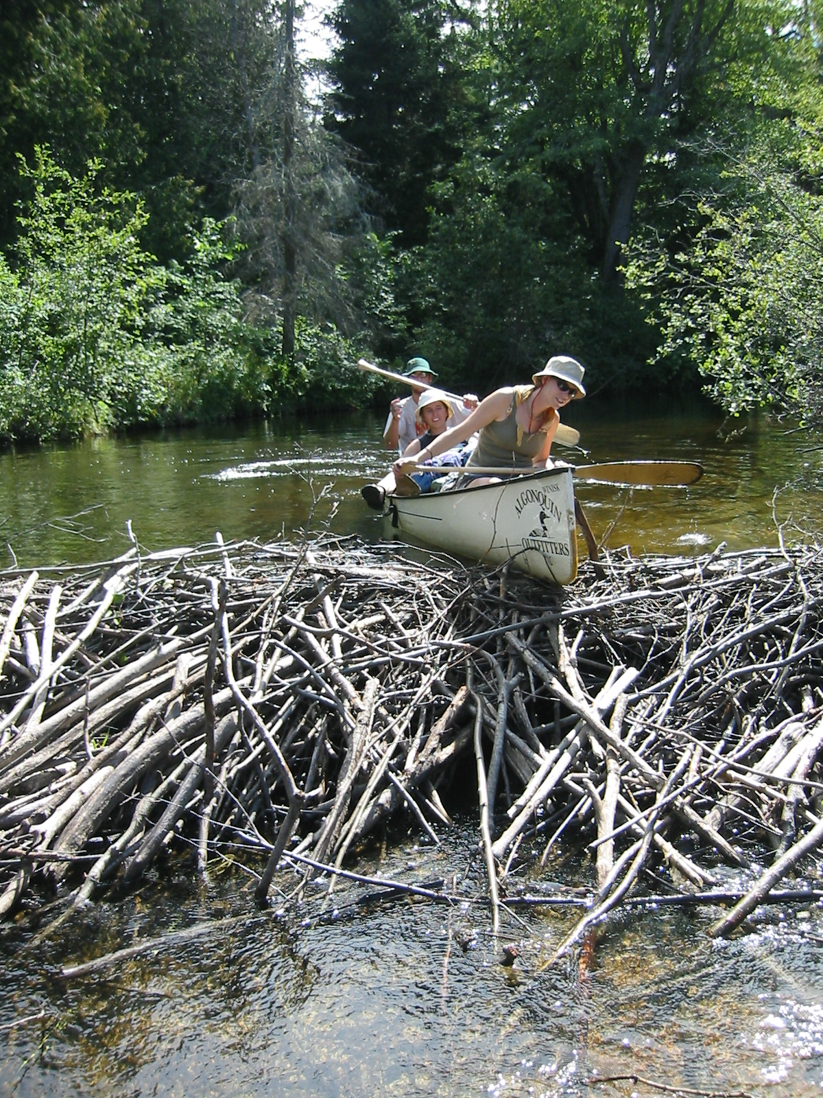 Picture taken by me, in Algonquin Park, unsuccessfully trying to run a beaver dam.